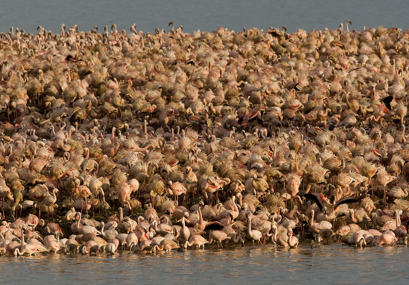 Adult Lesser Flamingos, roosting on a specially constructed breeding island at Kamfers Dam, Kimberley, South Africa